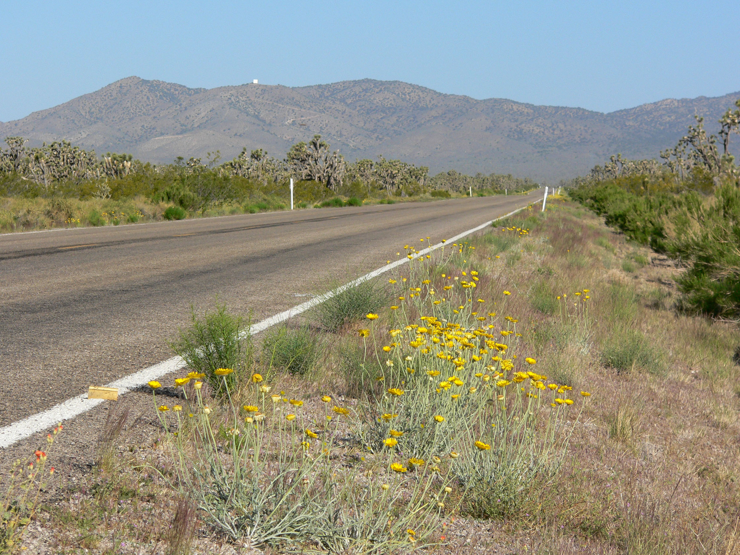 Nevada State Route 164 (aka Nipton Road) between Nipton, California and Searchlight, Nevada, near the Crescent mining district and the Wee Thump Joshua Tree Wilderness